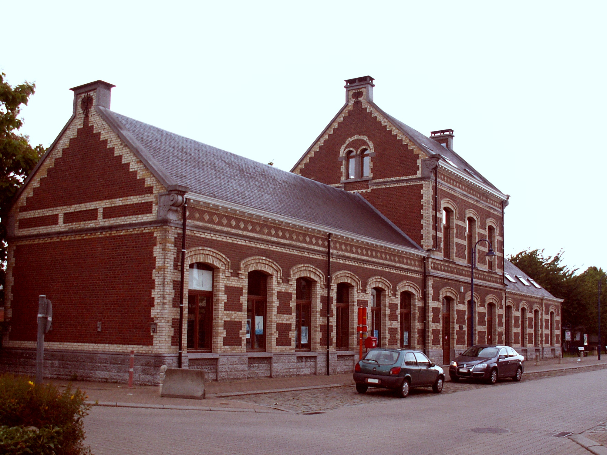 The station of Eghezee, along former belgian railway line 142 between Namur and Tirlemont (Tienen). Nowadays is this station used by the public local authority, and the railway line is turned into a green/slow path for bicycles, pedestrians and horse riders.